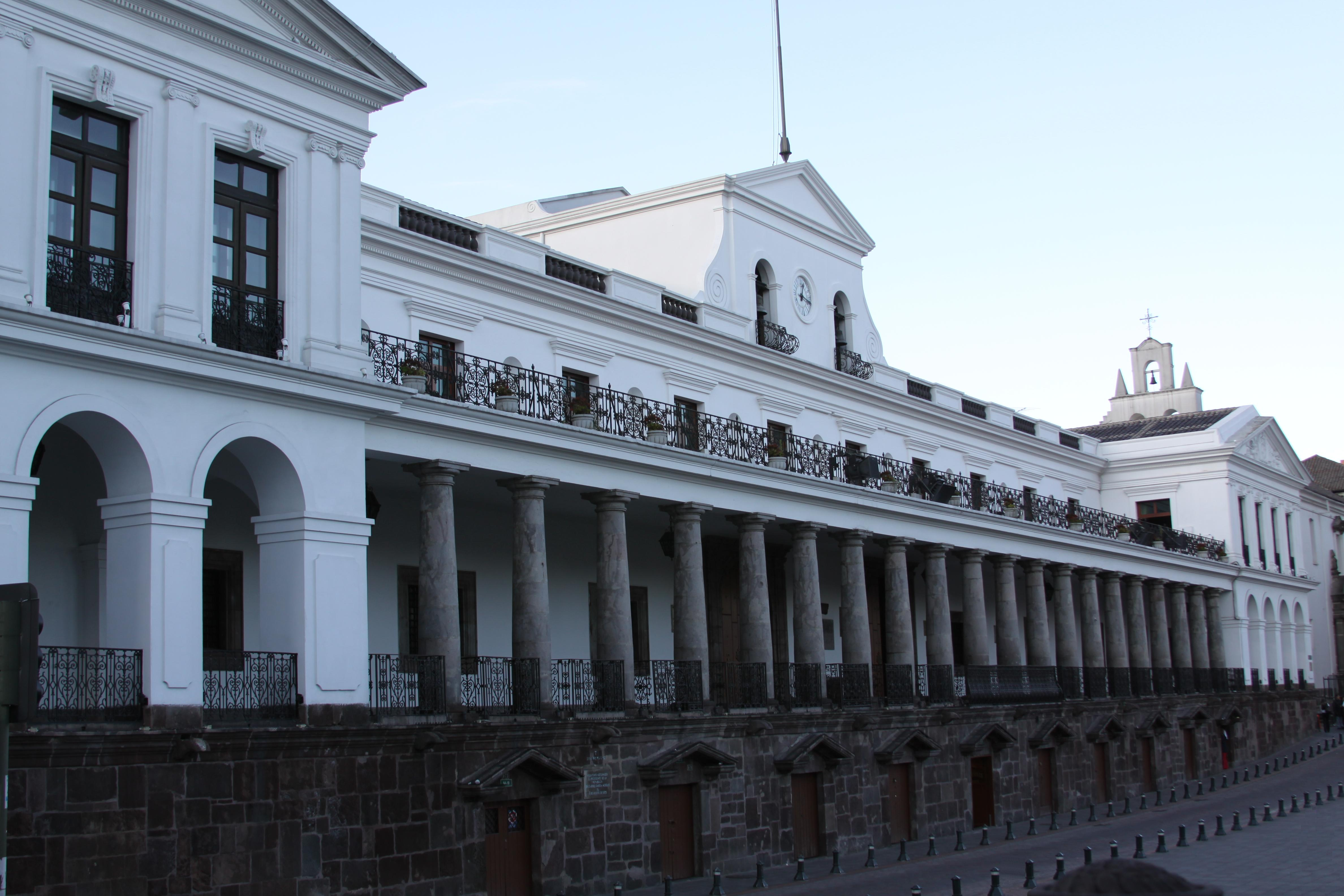 Carondelet Palace, official residence and principal workplace of the President of Ecuador.